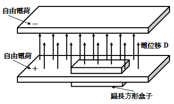 Computation of electric displacement using Gauss's law in a capacitor.